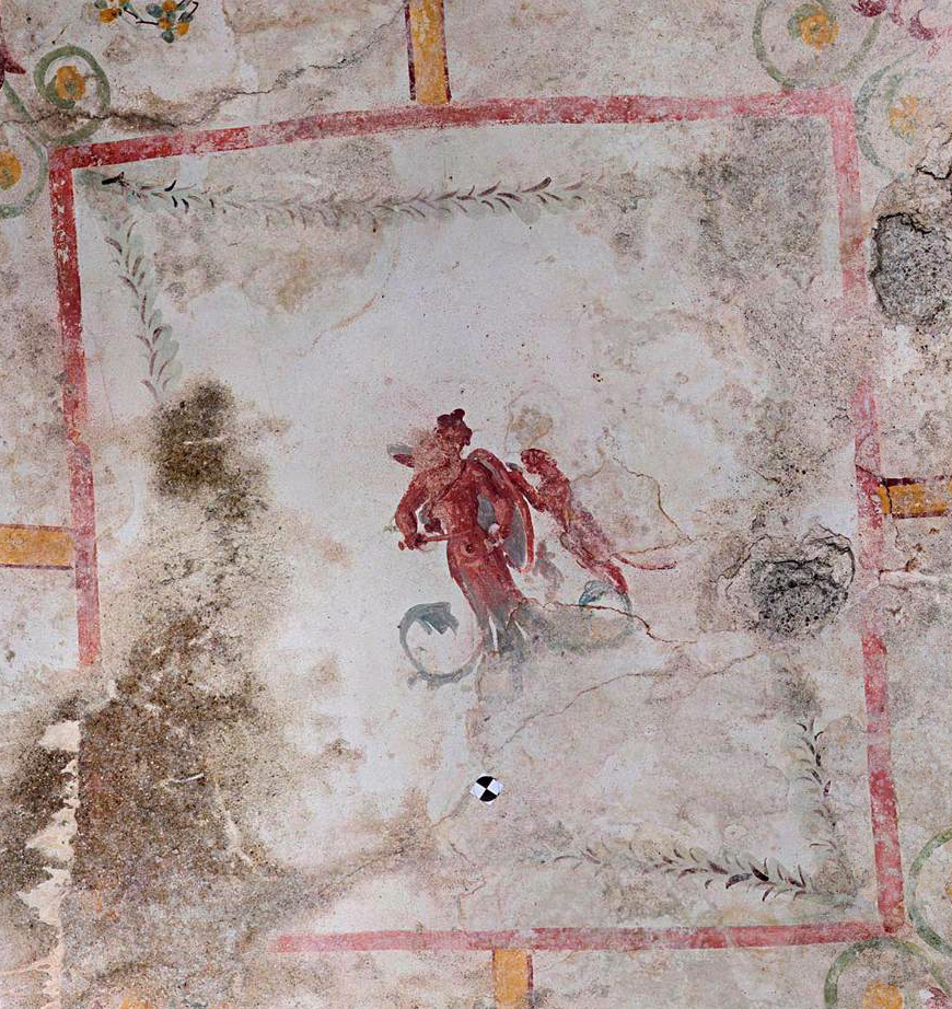 Man being attacked by a panther. Sala della Sfinge (Sphinx Room), Domus aurea, Rome.